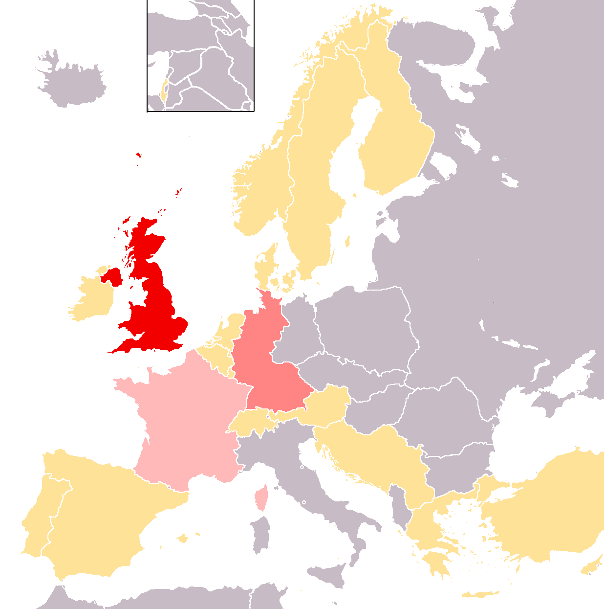 Map of Eurovision 1981